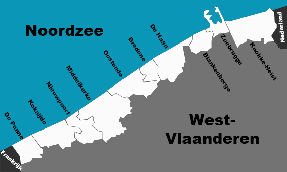 Belgian coastline with names